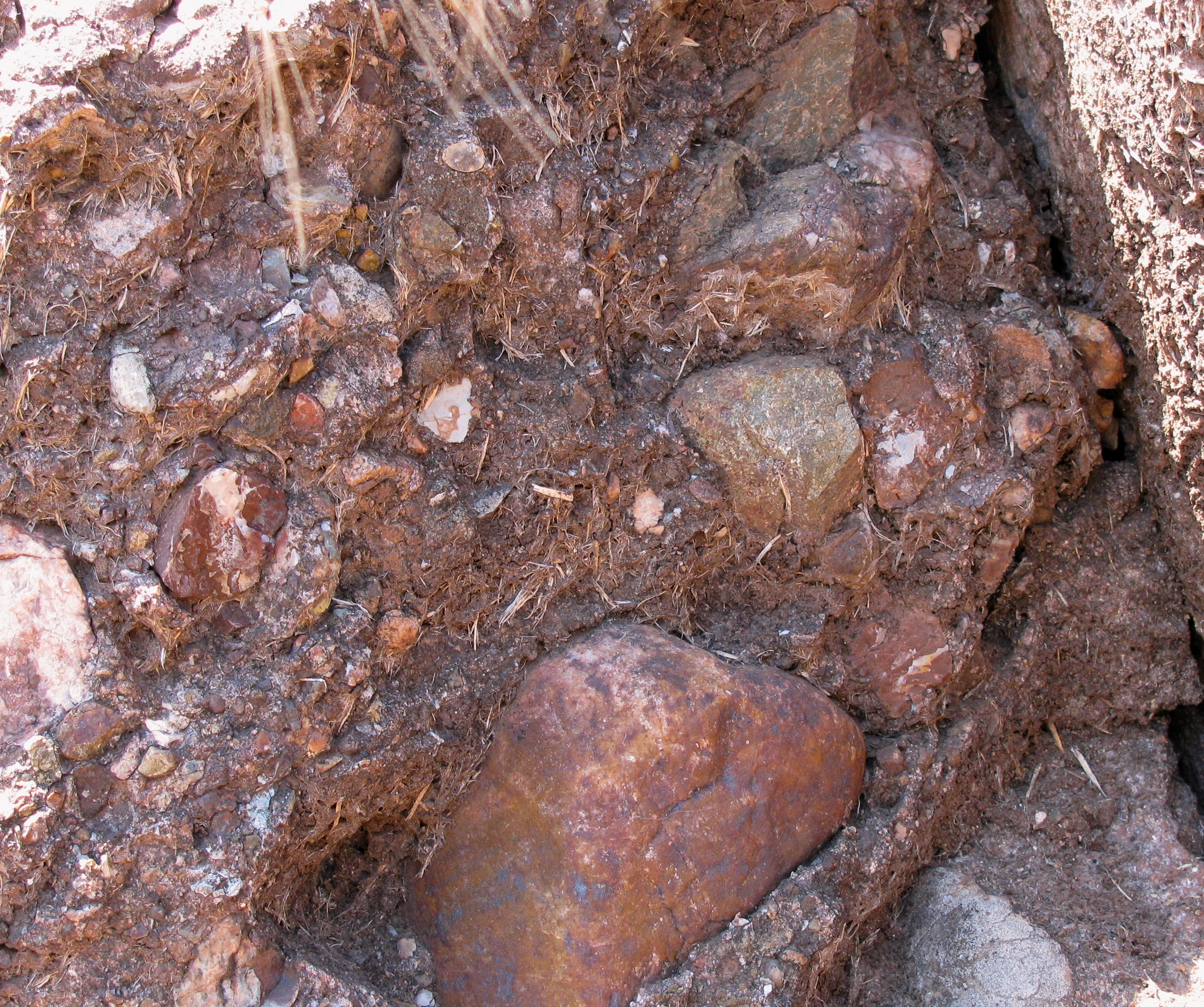 Lower Sespe; weathered, poorly-sorted conglomerate (all sizes from boulders on down); Santa Ynez Mountains, CA, photo by self, GFDL/equiv